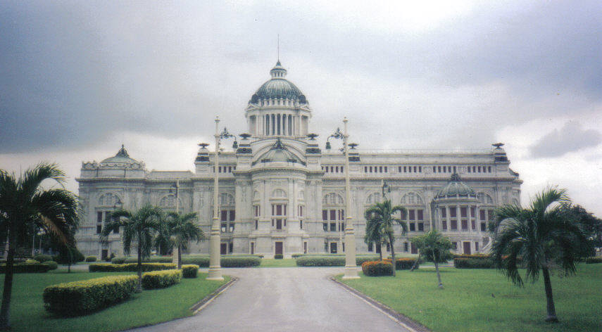 Ananta Samakhom Throne Hall in Bangkok, Thailand. Photographed from the north